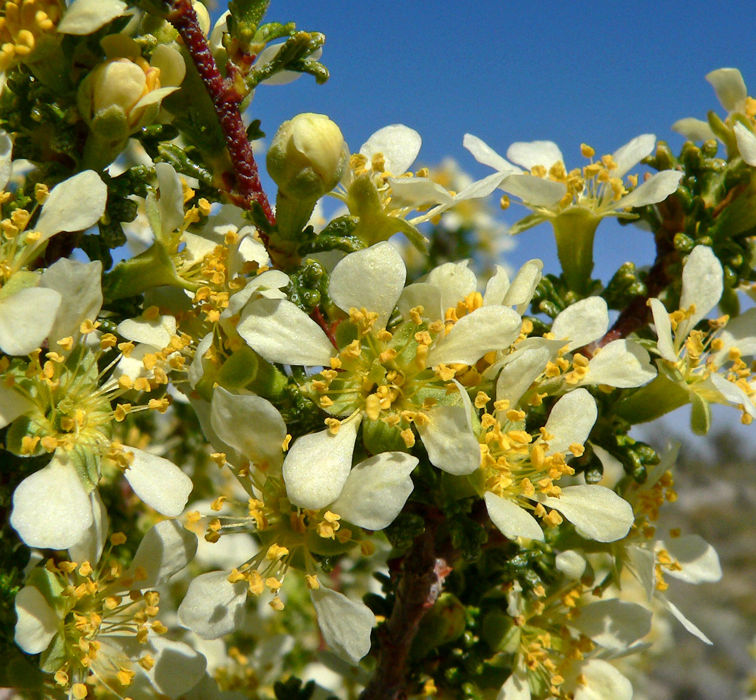 Purshia glandulosa on Cima Dome near Teutonia Peak, Mojave National Preserve, California